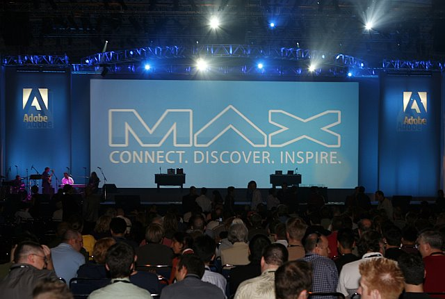 The AdobeMAX event held at McCormick Place, Chicago, 2007.